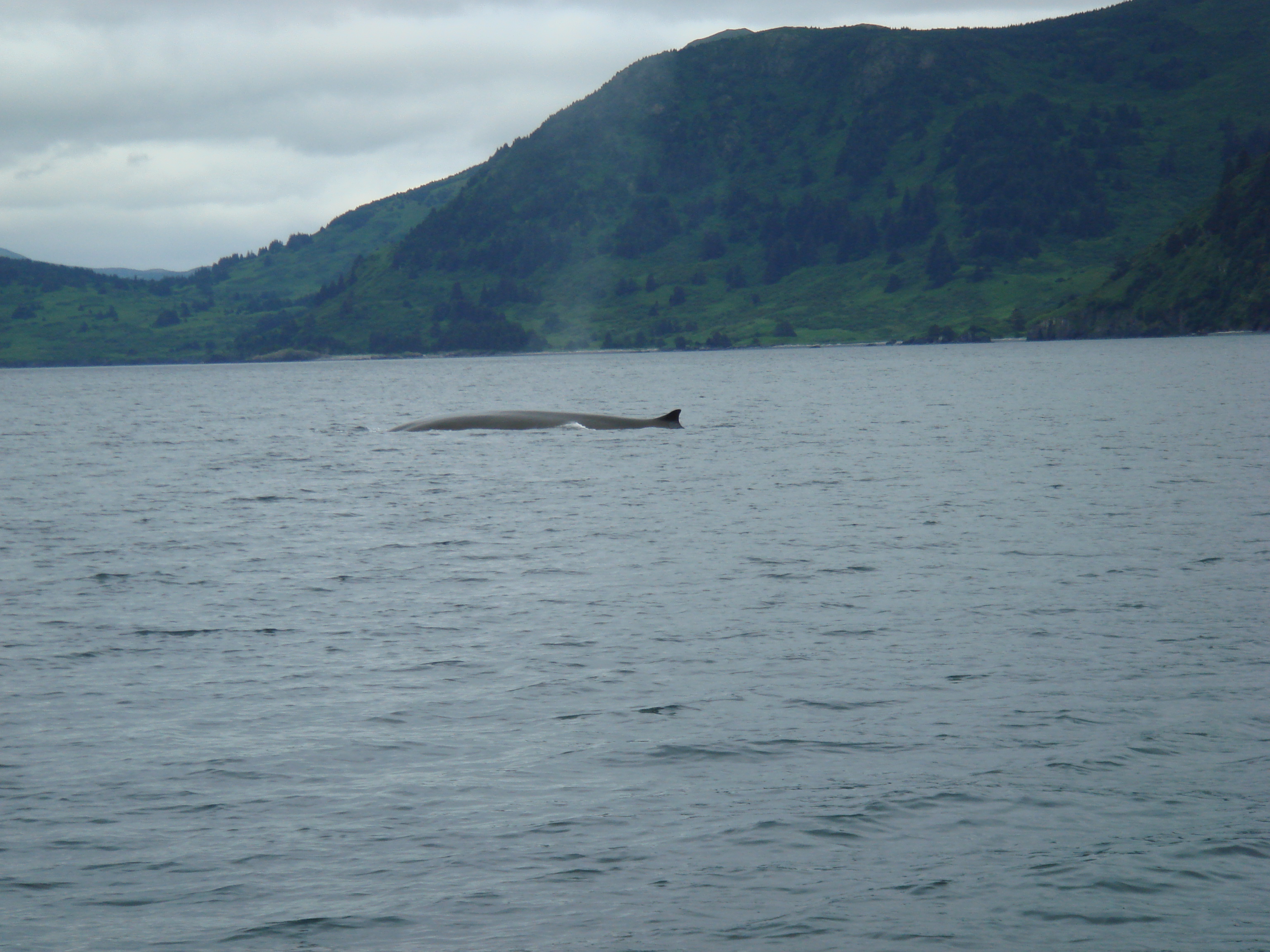 A whale surfacing in Raspberry Straight, part of the Kodiak archipelago